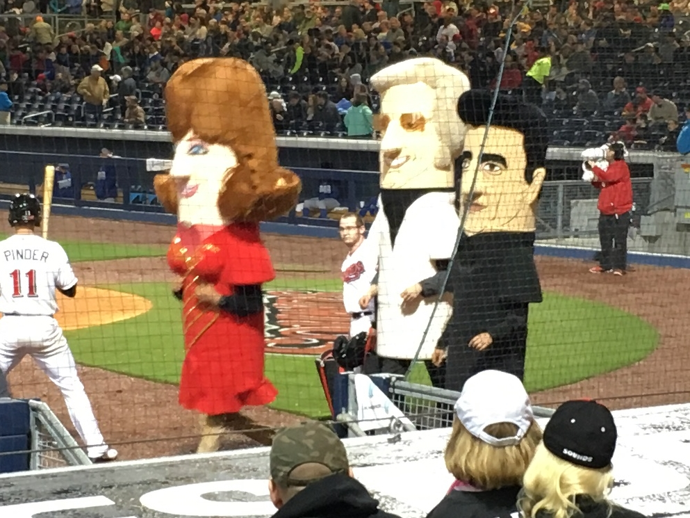 Caricature mascots of country musicians Reba McEntire, Johnny Cash, and George Jones race around First Tennessee Park during the fifth inning of a Nashville Sounds game on April 7, 2016